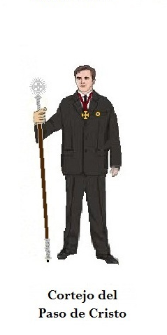 Cortejo Paso de los Dolores de San Francisco